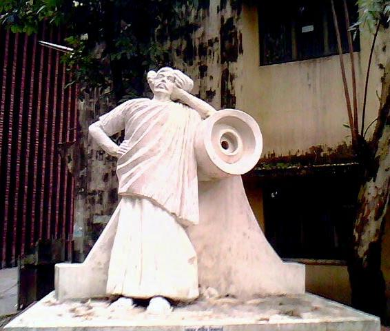 Poet Nazrul's statue in BFDC 2011.